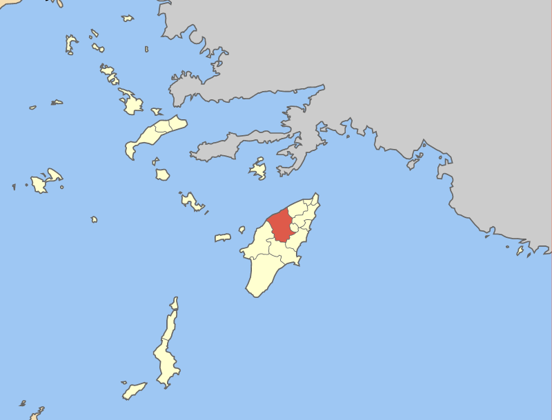 Locator map of Kamiros municipality (Δήμος Καμείρου) in Dodecanese prefecture (Νομός Δωδεκανήσου) in Greece.